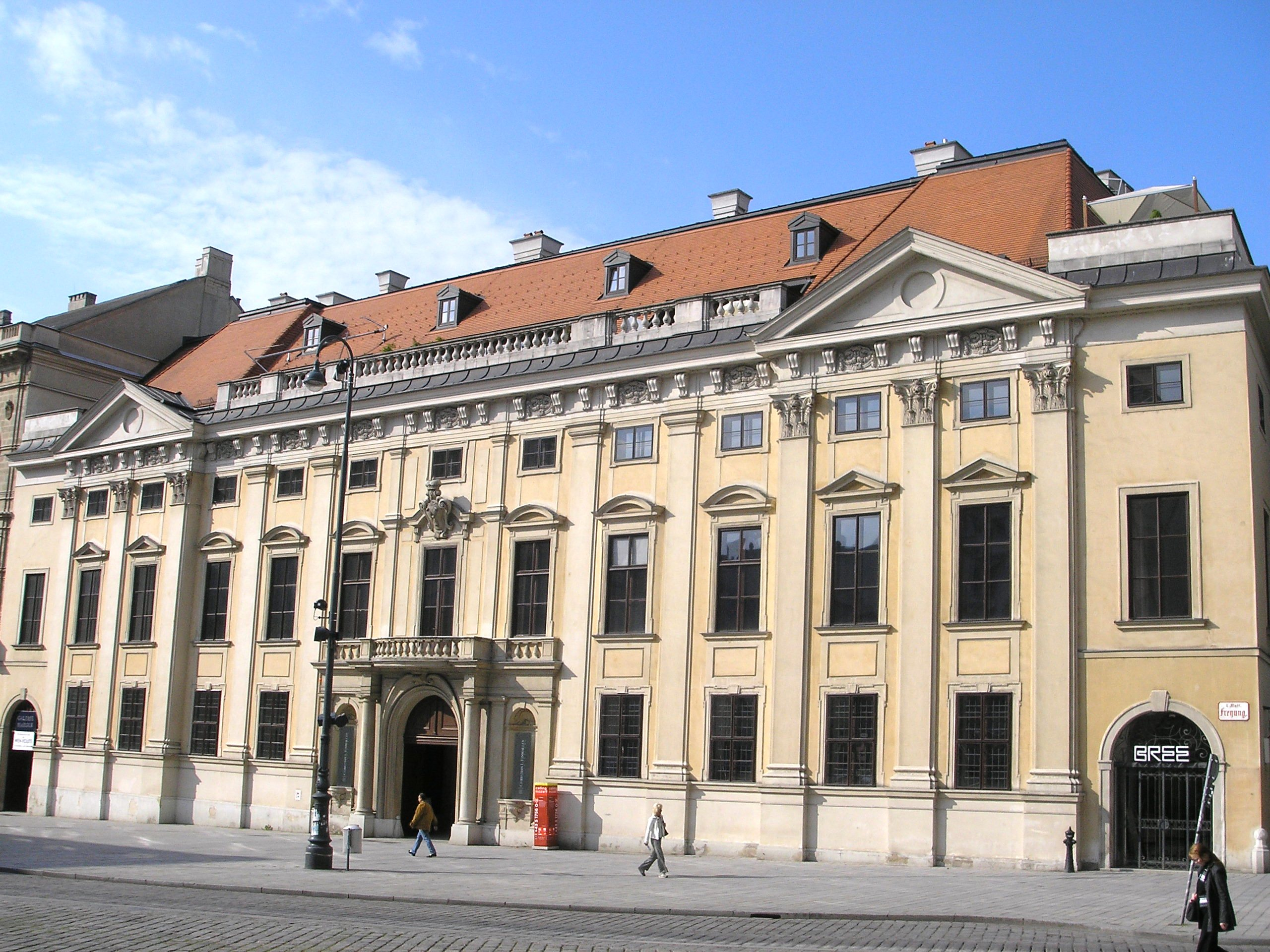 Palais Harrach at the Freyung, in Vienna. City-palace of the noble Harrach family. Constructed in the baroque era.